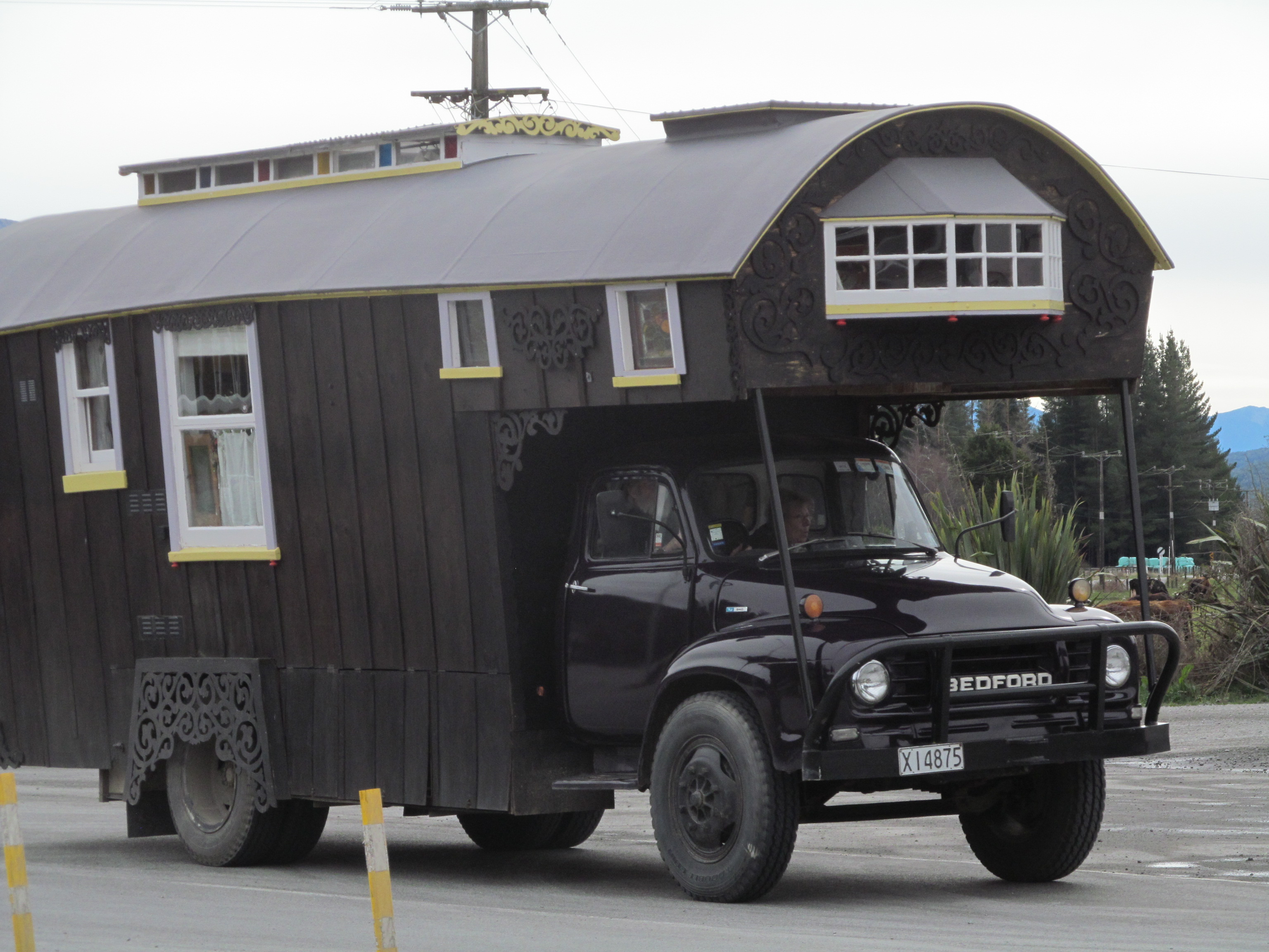 Aside from being a rather unsteady looking mobile housing contraption, this J5 is also the absolute latest I've seen being registered in May 1983 (ex Ministry of Works maybe?) This design dates to the early 1950s!!